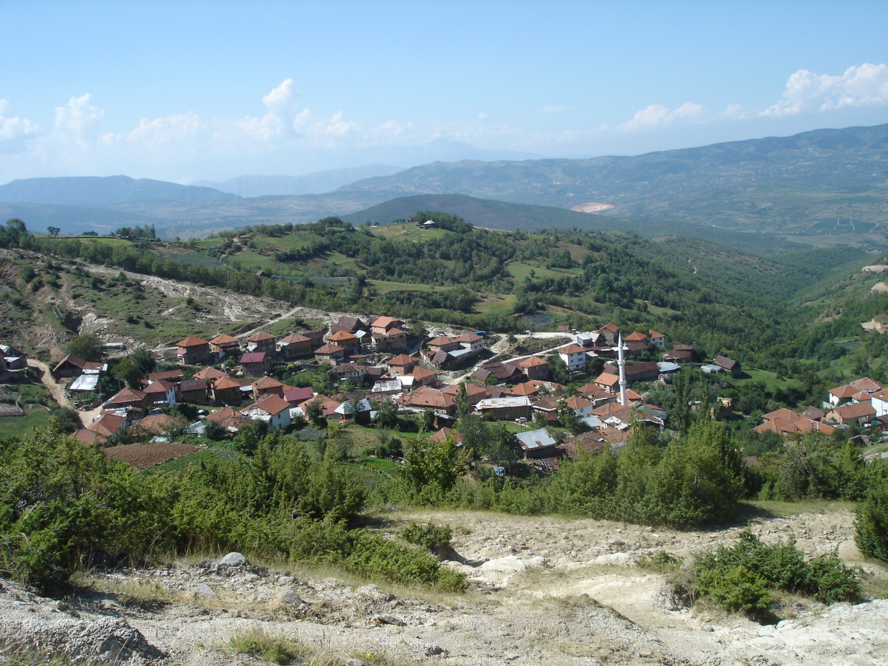 village of Cvetovo, near Skopje, Macedonia